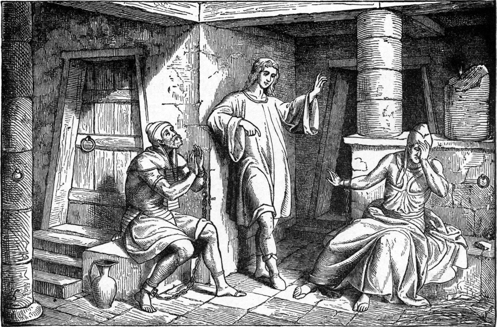 Joseph Interprets the Prisoners' Dreams. Caption: "Joseph is in the prison in Egypt. You see how strong the prison is. It is built of stone, with bolts and bars to keep the prisoners from getting out. Two men are in the prison with Joseph. They have chains on their hands and feet. But there are no chains on Joseph. For the keeper of the prison soon found out what a good man he was, so he lets him walk about wherever he chooses. These two men who are with Joseph are servants of the king. One night when they were asleep they both had strange dreams. Joseph is telling them what their dreams mean. One man's dream meant that in three days he should go out of prison and live in the king's house again. You see how glad he looks. But the other man's dream meant that in three days he should be killed; and he looks very sorrowful. Joseph was able to tell the meaning of these dreams, because God made him know what they meant." Illustration from the 1897 Bible Pictures and What They Teach Us: Containing 400 Illustrations from the Old and New Testaments: With brief descriptions by Charles Foster